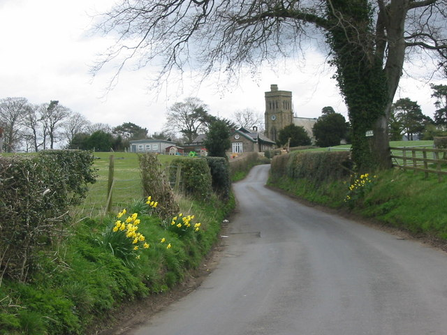 North Rode, Cheshire, England, seen from the west. The lane leads past Daintry Preparatory School to St Michael's parish church.